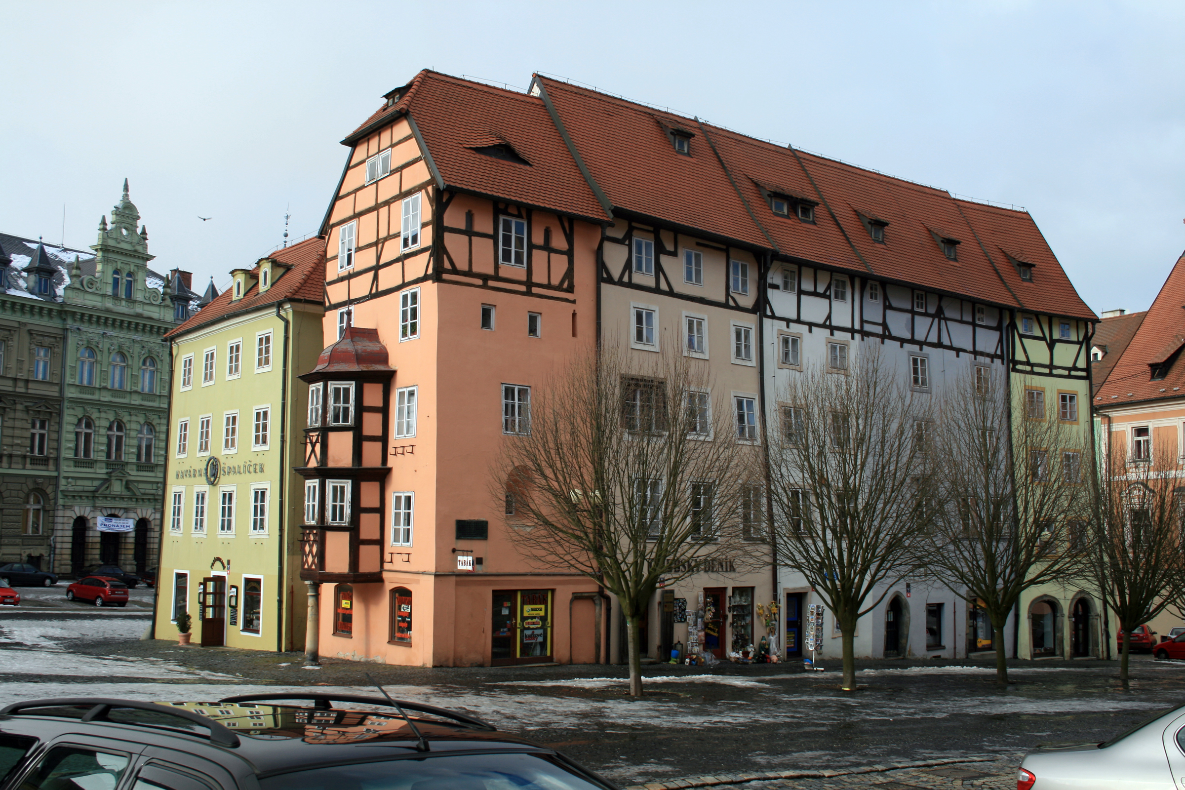 Špalíček - a complex of eleven medieval houses on the market square in Cheb, Czech Republic